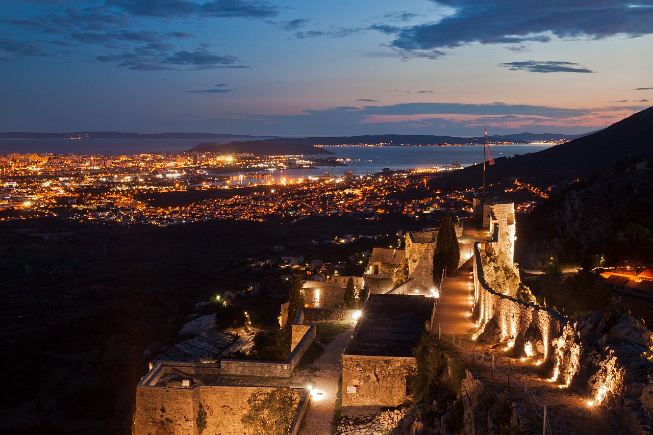 Klis Fortress at sunset. City of Split in the background.